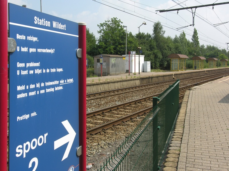 The railway station at Wildert in the municipality of Essen in Belgium